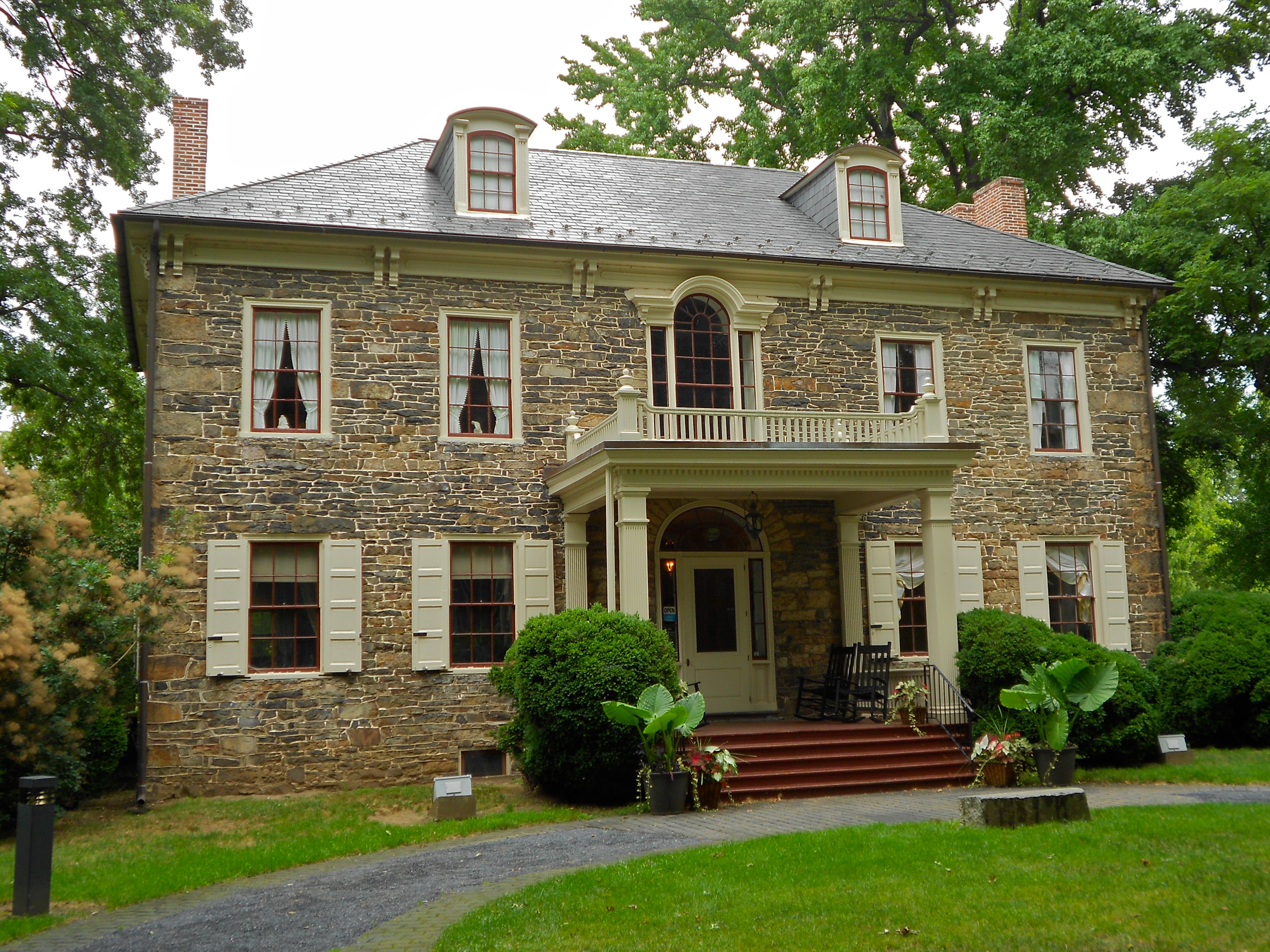 Archibald McAllister House, listed on the NRHP on June 7, 1976, located in Ft. Hunter County Park, nominally 5300 North Front Street, north of Harrisburg, Dauphin County, Pennsylvania.